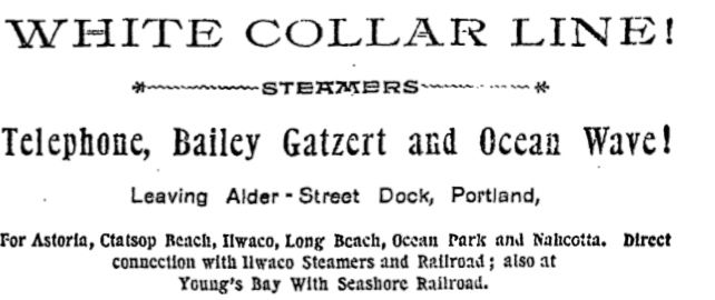 Advertisement (excerpt) for the White Collar Line of steamboats operating on the lower Columbia River.